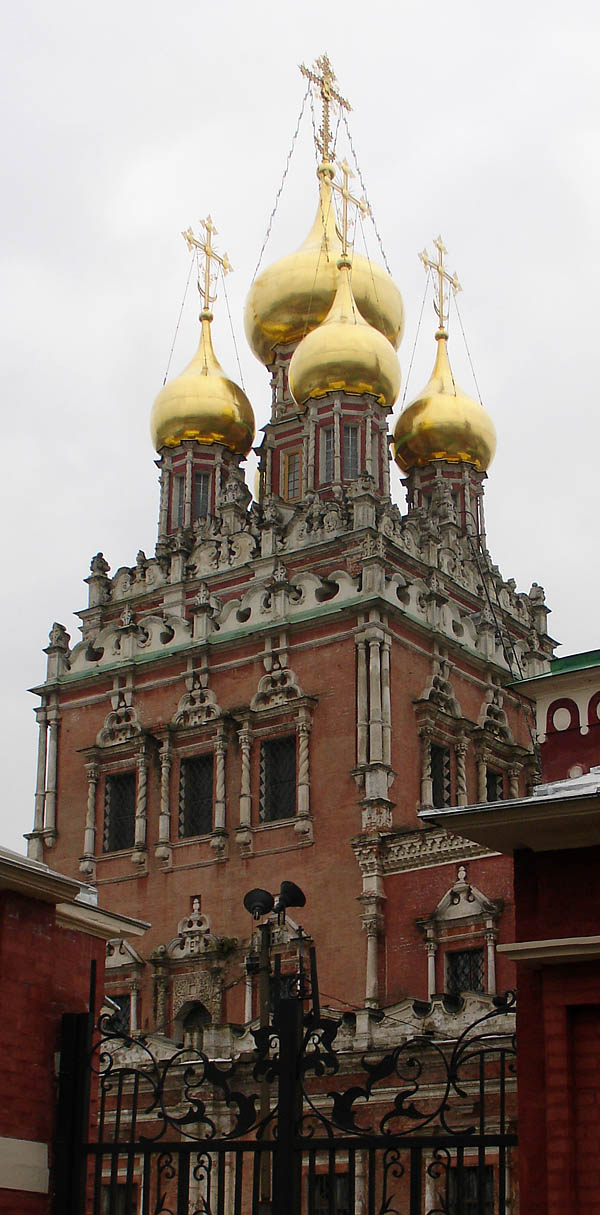 Resurrection Church, 2nd Kadashevsky Lane, Moscow. 1687-1695. See also 1880s view: Image:Moscow, Resurrection in Kadashi.jpg